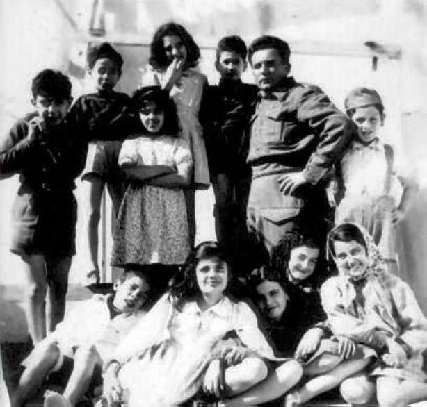 The Jewish School in Benghazi established by Jewish soldiers in Eretz Yisrael. Barsky, the teacher and soldier from Kfar Vitkin. Topics: Holocaust survivors; soldiers; Judaism.